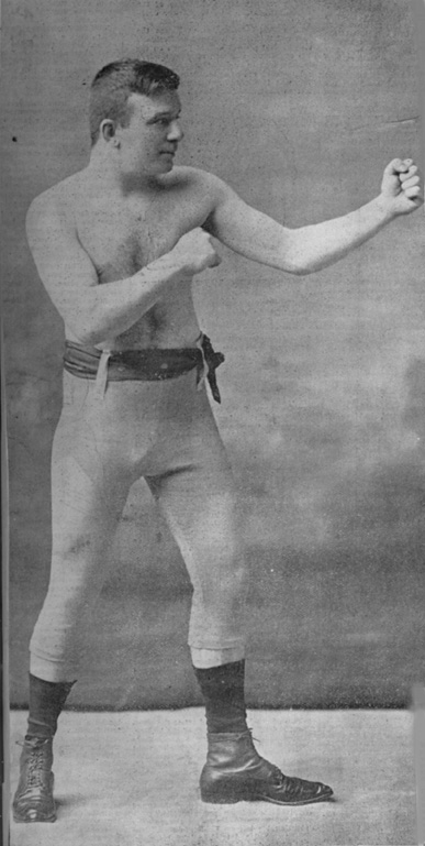 The Australian boxer, Young Griffo (1869-1927)